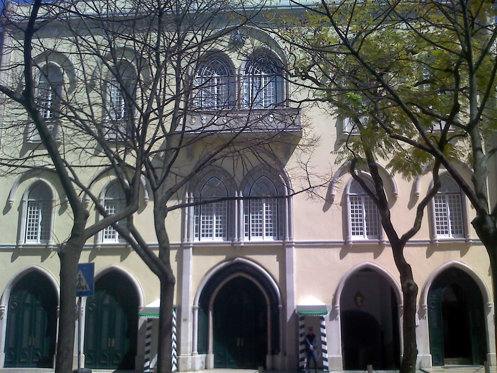 Quartel do Carmo - Lisbon: Headquarters of the Portuguese National Republican Guard